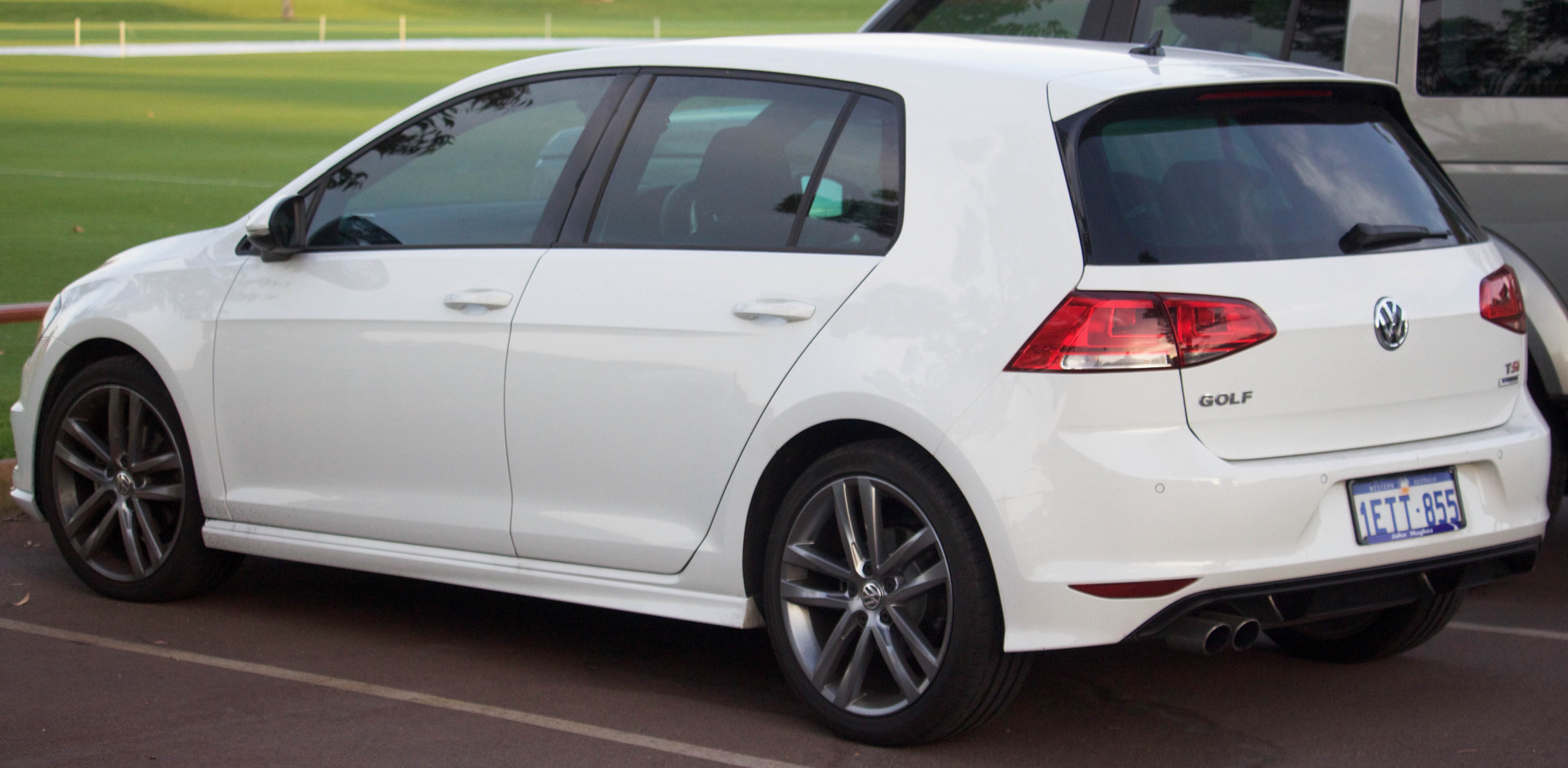 2015 Volkswagen Golf (5G) 103TSI R-Line 5-door hatchback. Photographed in Swanbourne, Western Australia Australia.